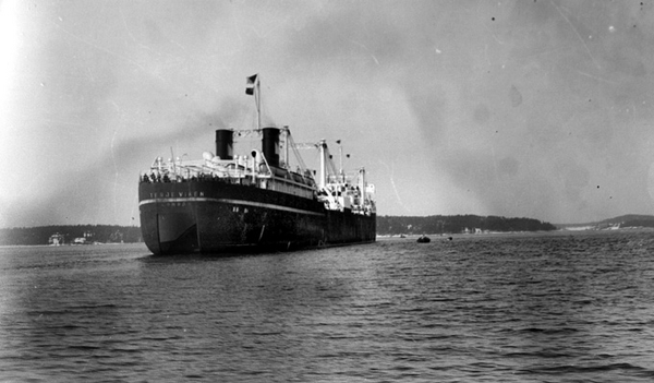 United Whalers' whaling factory ship Terje Viken (1936). Sunk by German submarin U-99 on 1941-03-07